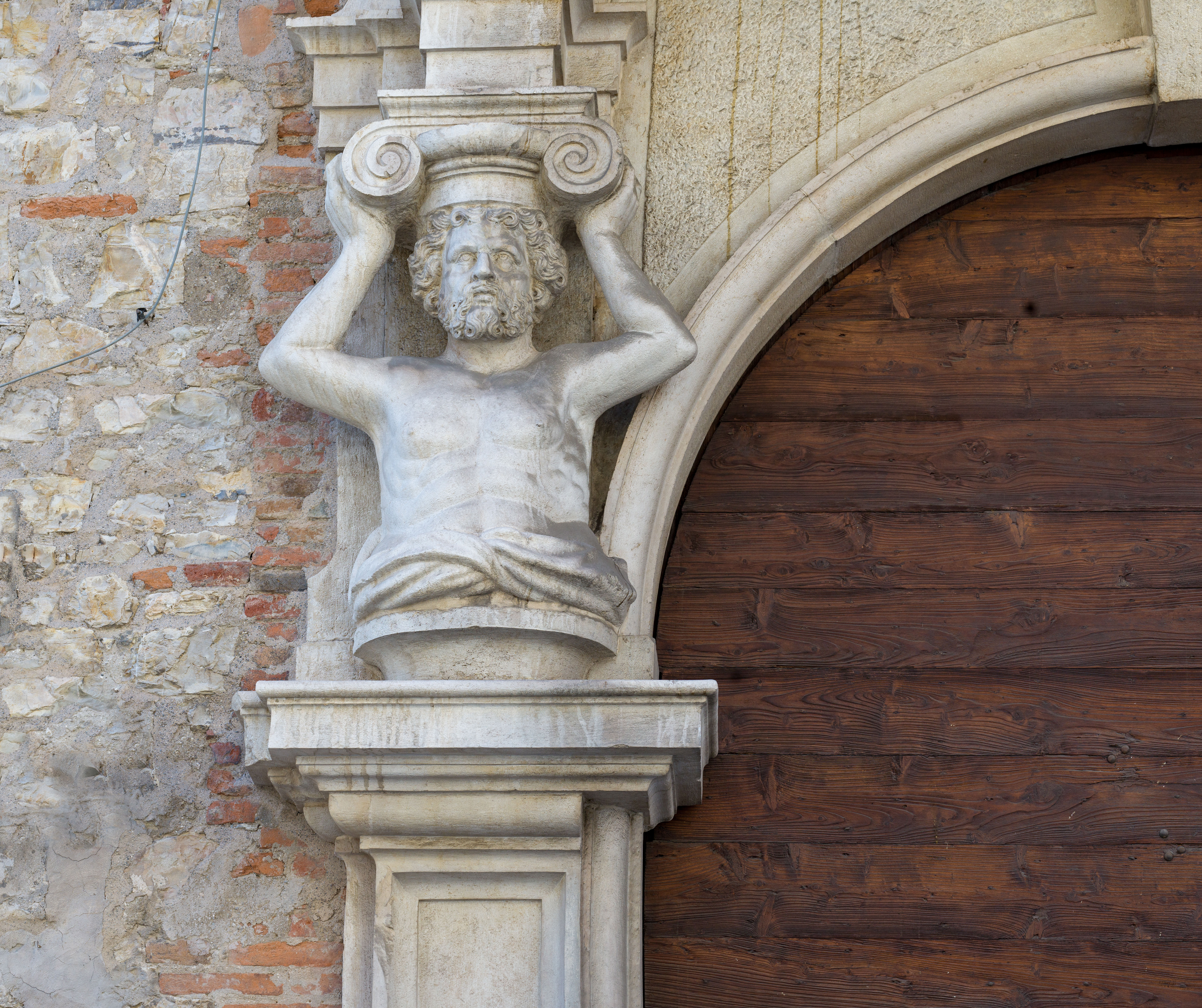 Atlas on the facade of the State High School "Arnaldo" in Brescia.